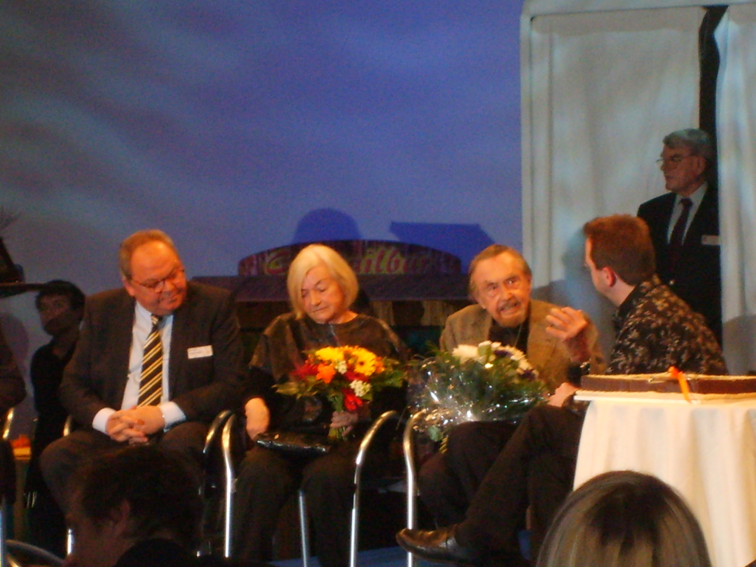 diving pioneer